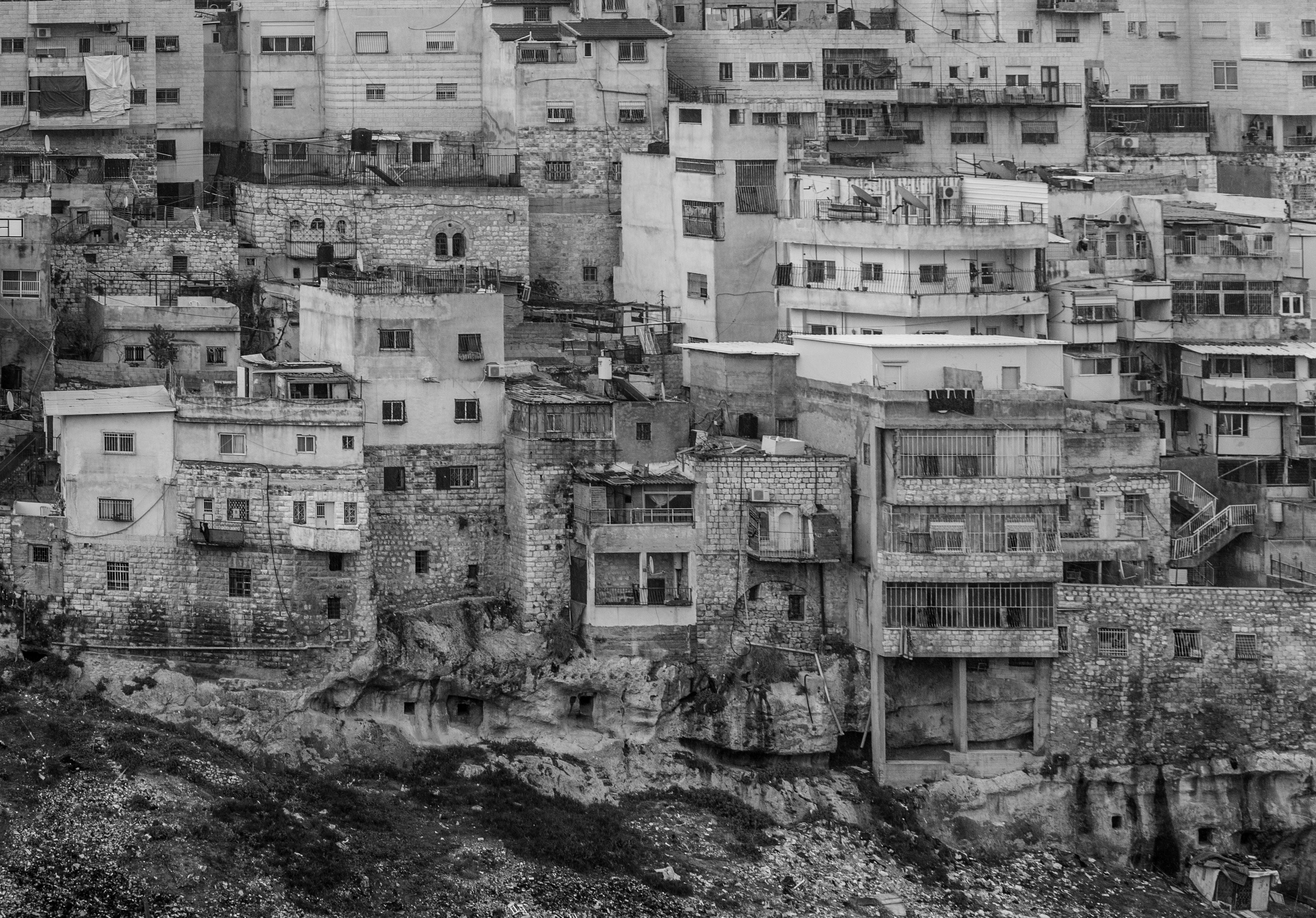 Ras al-Amud as viewed from Derech HaOfel near the Old City's Dung Gate.